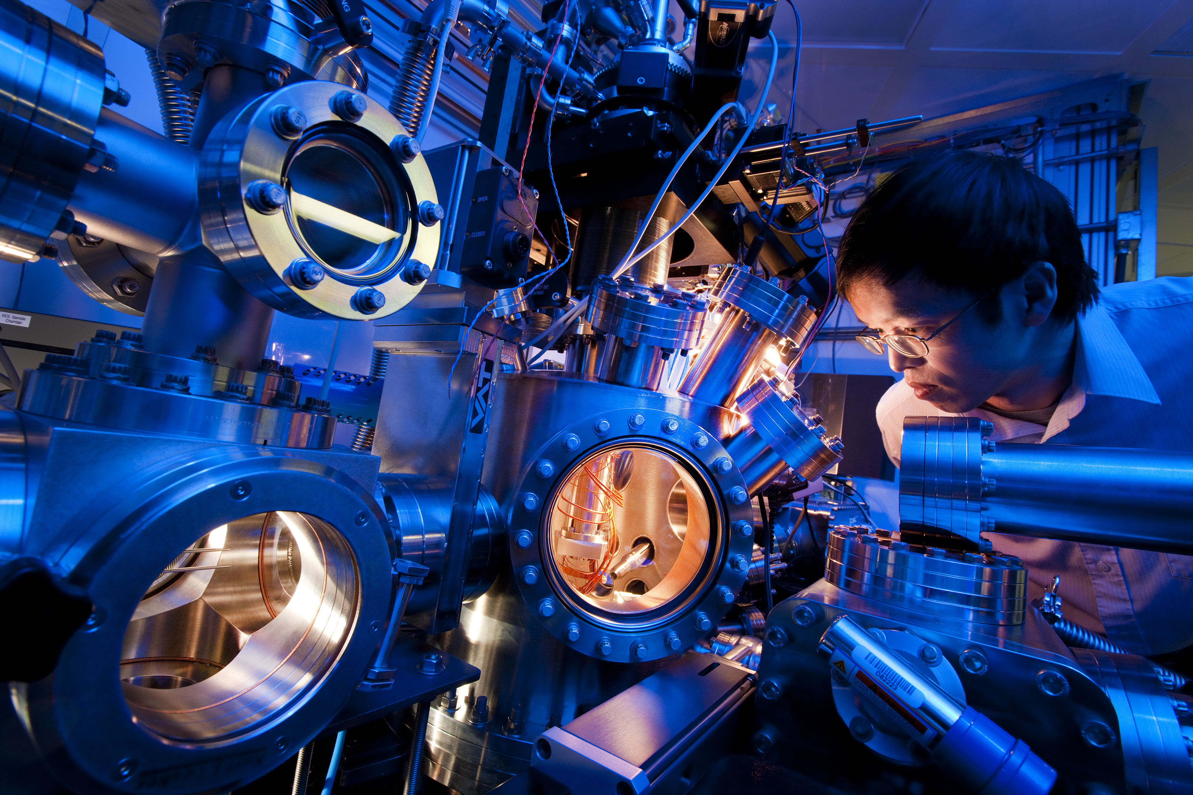 The REIXS beamline's X-ray emission chamber at the Canadian Light Source synchrotron with beamline scientist Feizhou He